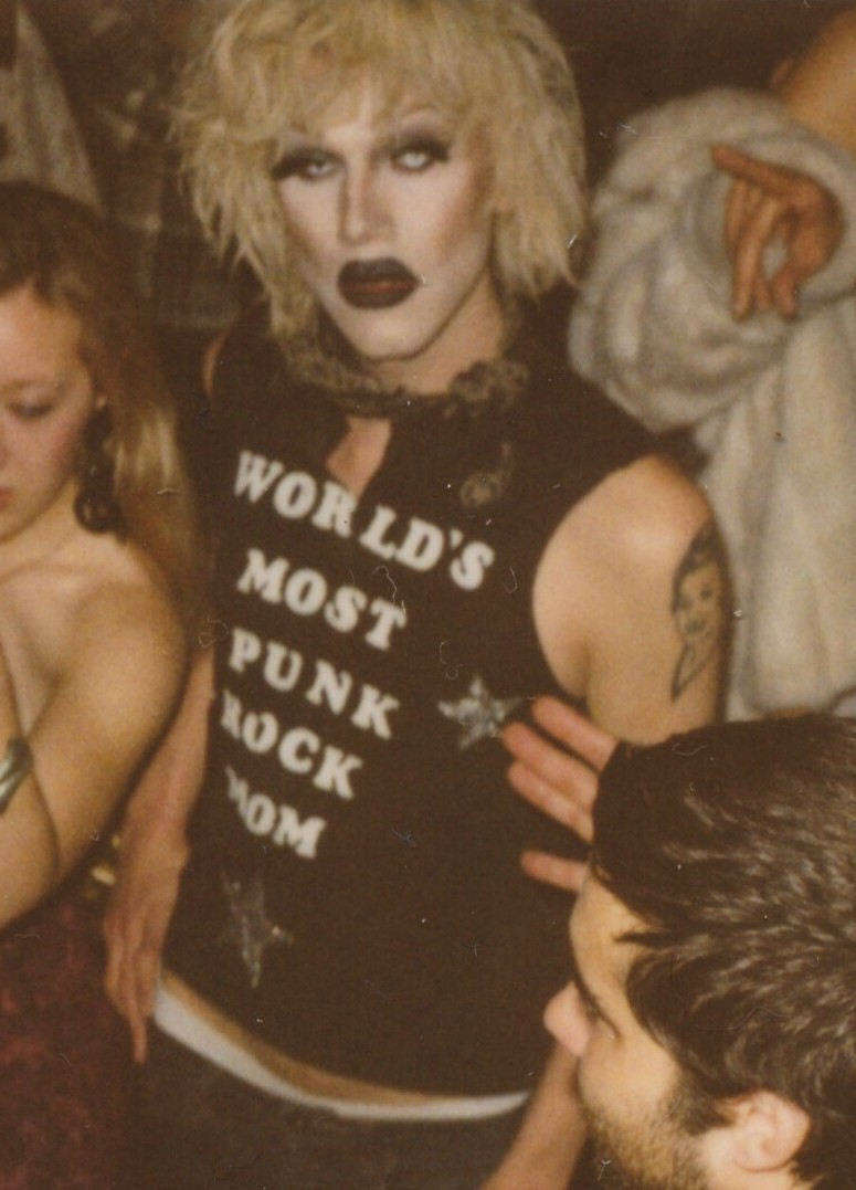 Sharon Needles at Brillobox in Pittsburgh, Pennsylvania, United States. Scanned Polaroid photograph.